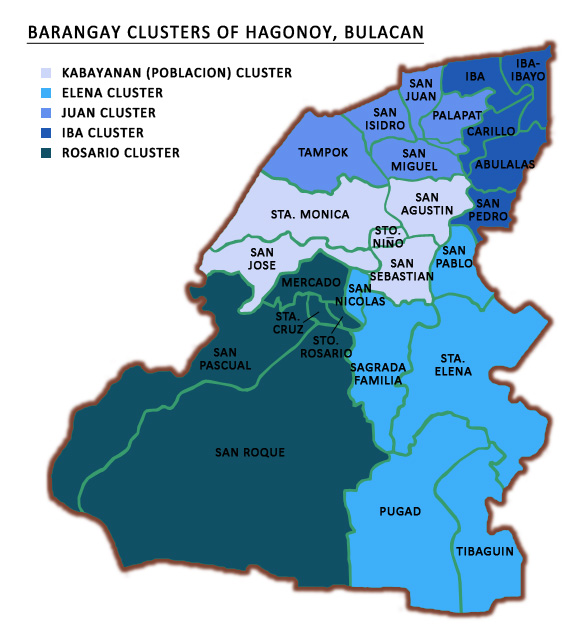 Map of Hagonoy, Bulacan showing its 26 barangays grouped into 5 clusters.